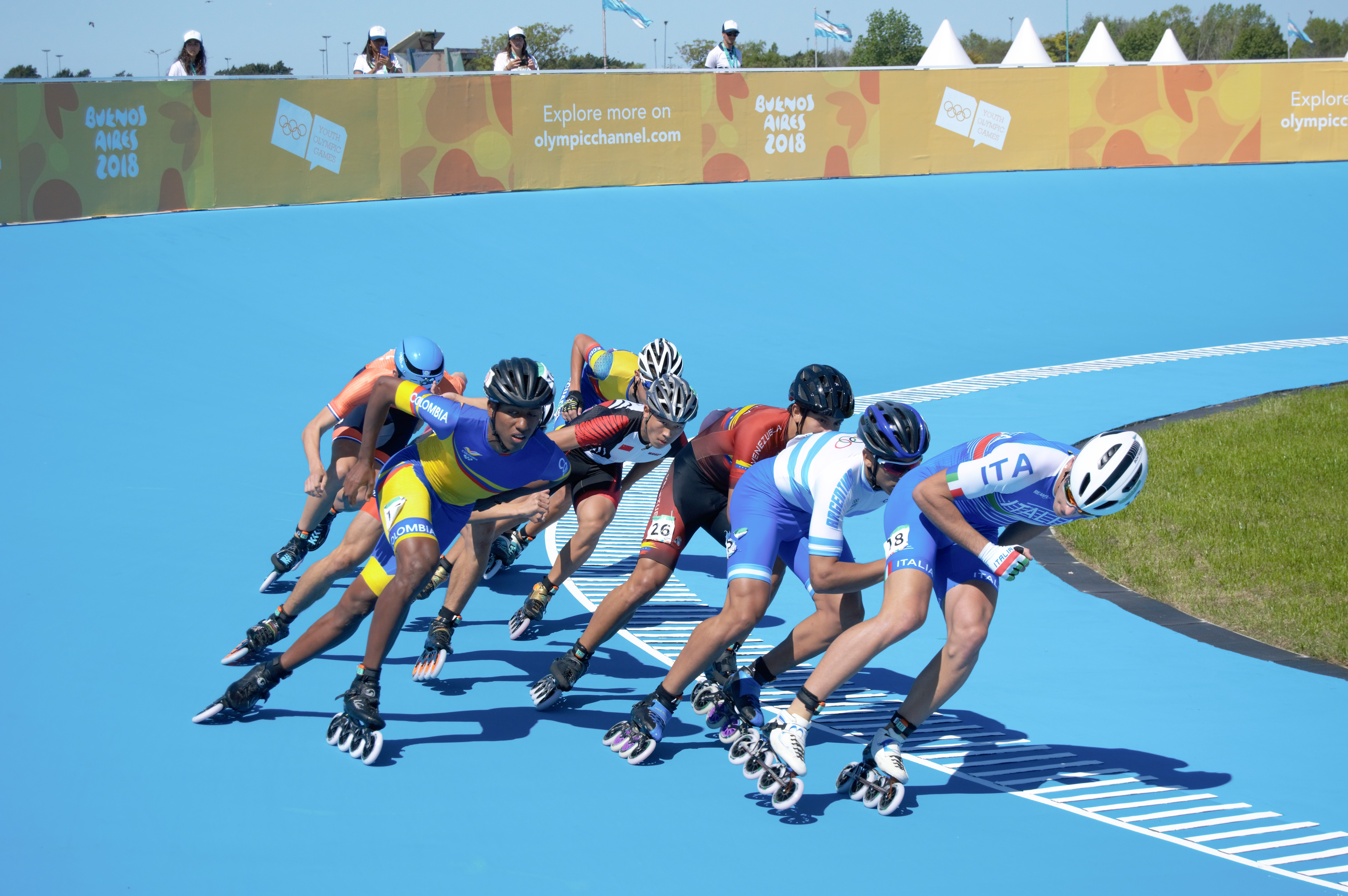 Roller speed skating at the 2018 Summer Youth Olympics. Boys' combined – 1000m Sprint Final.